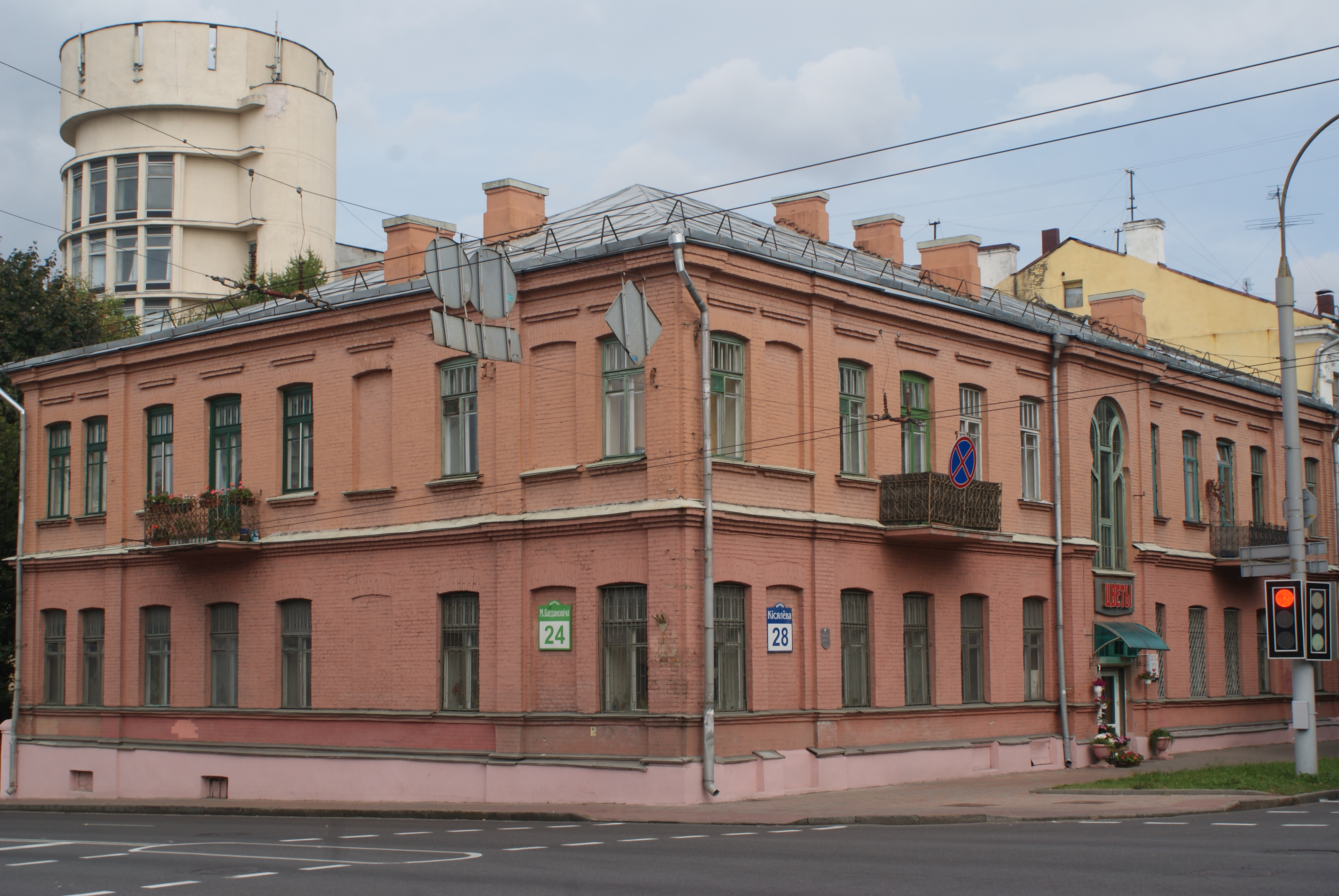 Беларуская (тарашкевіца): Будынак. г. Менск This is a photo of Belarusian heritage monument. Reference number: 713Г000082 ( WLM)